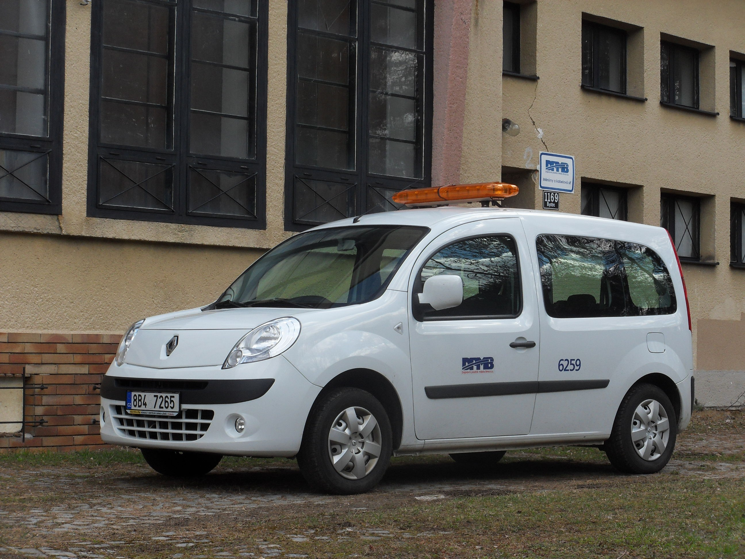 Renault Kangoo II No. 6259 of Dopravní podnik města Brna, Bystrc, Brno, Czech Republic